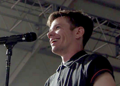 Nate Ruess at Bonnaroo Music Fest. On June 10th, 2012.